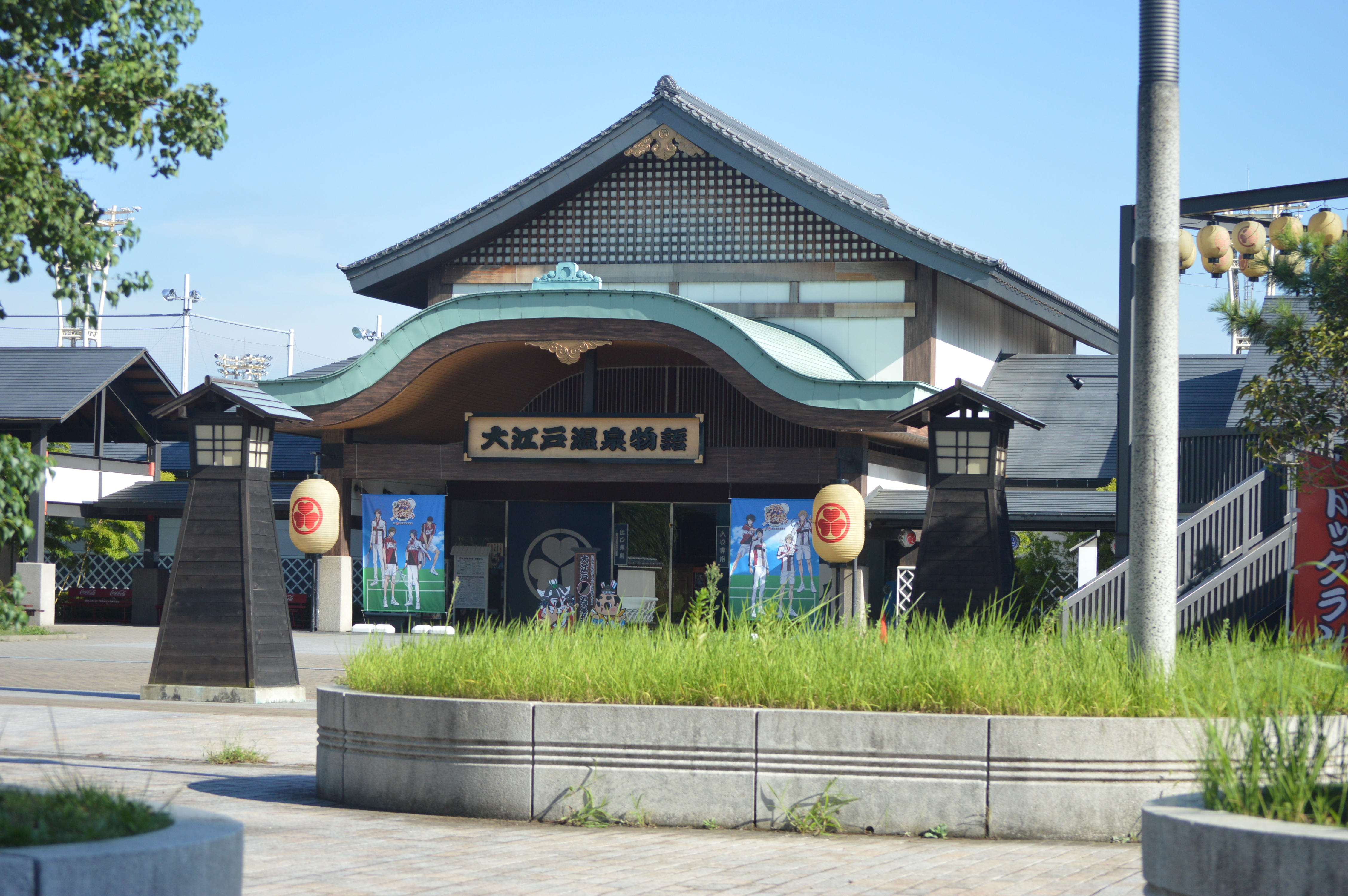 Ōedo Onsen Monogatari is an Edo-style onsen theme park in Odaiba, Tokyo, Japan.